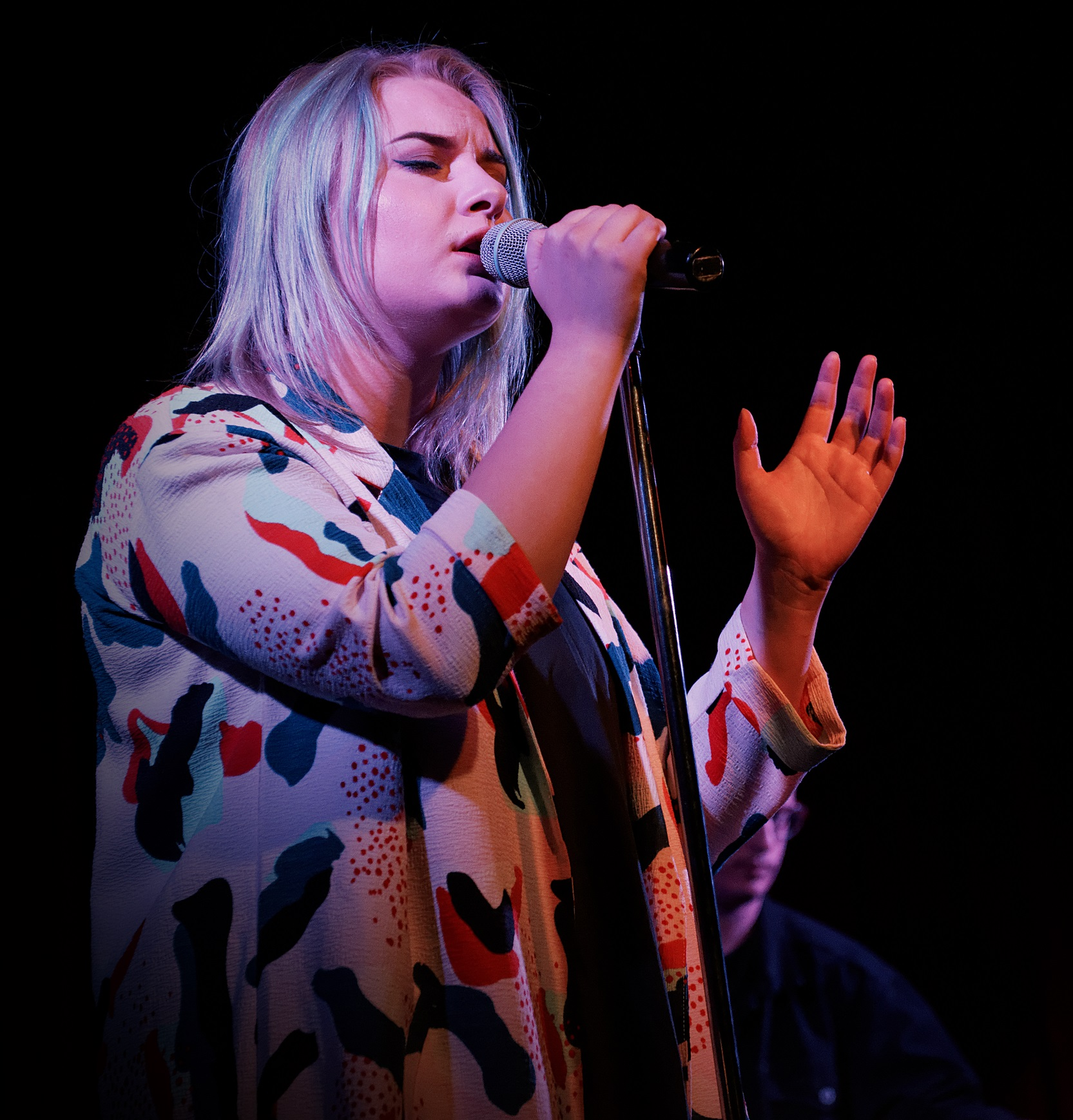 Låpsley at Hotel Cafe